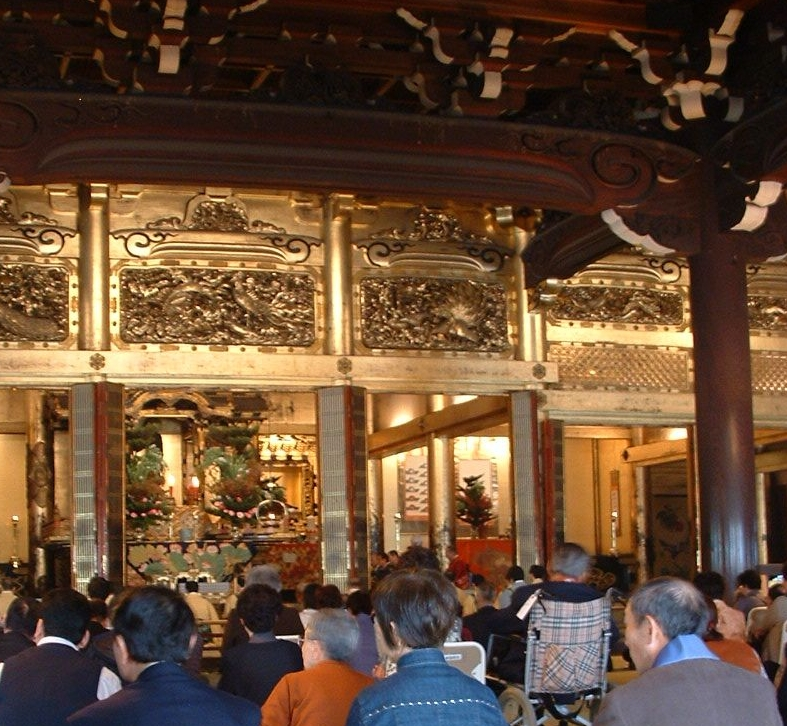 Inside Higashi Hongan-ji Photograph by Gakuro